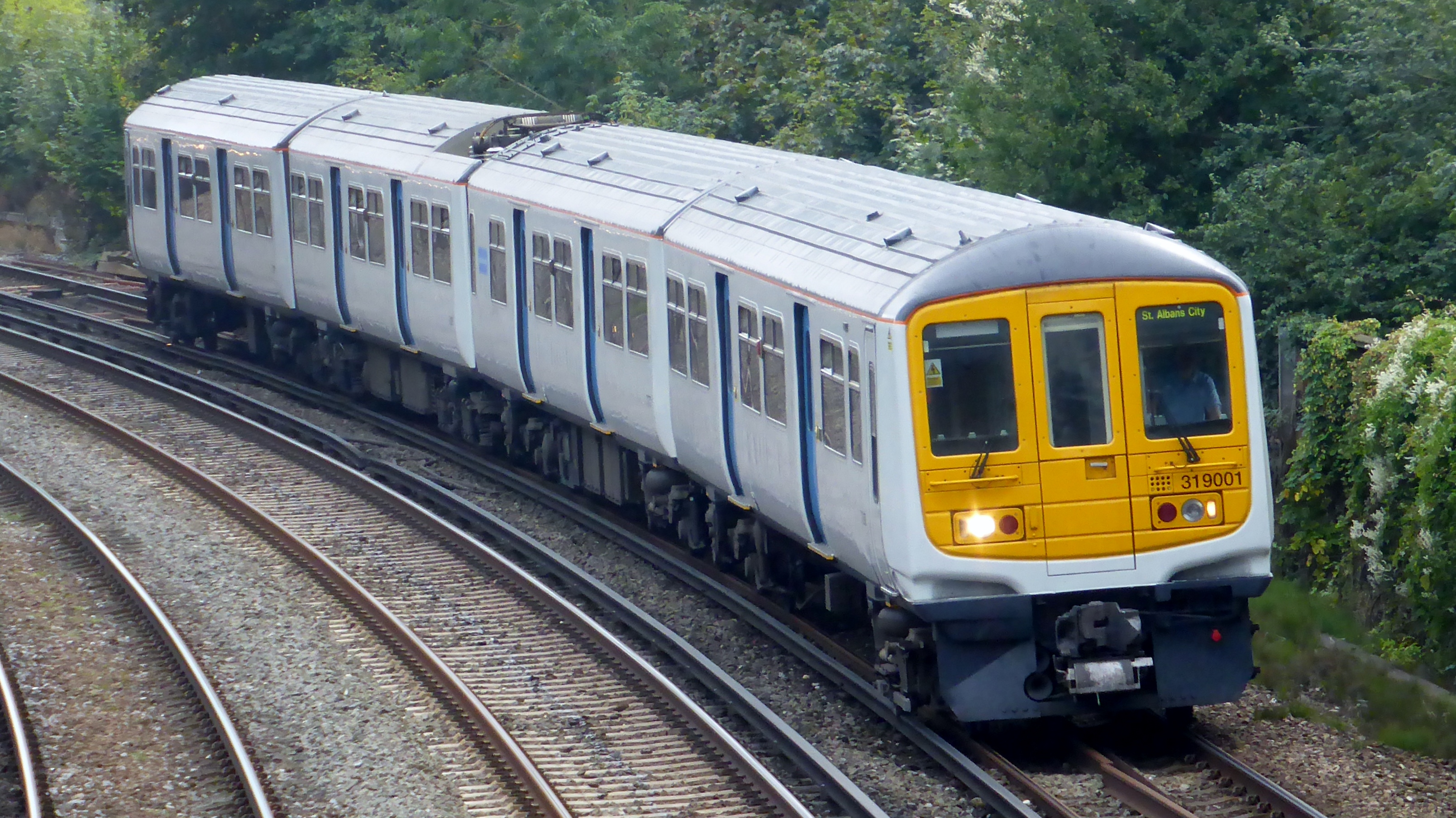 According to Realtime Trains the route and timings were; Sevenoaks [SEV] 4..........0843..........0842¾RT Otford Junction [XOT]....0847½pass0855¼7L Swanley [SAY] 1....0900090109000901pass09087L St Mary Cray Junction [XMU].....0907pass0914½7L Bickley Junction [XLY]..................0908pass09157L Bromley South [BMS] 10911½0912½.....0918¾0919½7L Shortlands [SRT] 0914½0915......0921¼09238L Shortlands Junction [XOR]...........0916pass09248L Bellingham [BGM] 09210921½.....09290929½8L Catford [CTF] 10923½092409240924093109328L Nunhead [NHD] 10928½092909290929093709389L Peckham Rye [PMR] 309310931½093109310939¼09408L Crofton Road Junction pass0932½pass09429L Denmark Hill [DMK] 30933½0934½09340934094209438L Elephant & Castle [EPH] 309410942094109420948¼0948¾6L London Blackfriars [BFR] Operated by Thameslink (TL) from here. 409450946094609460952¾7L